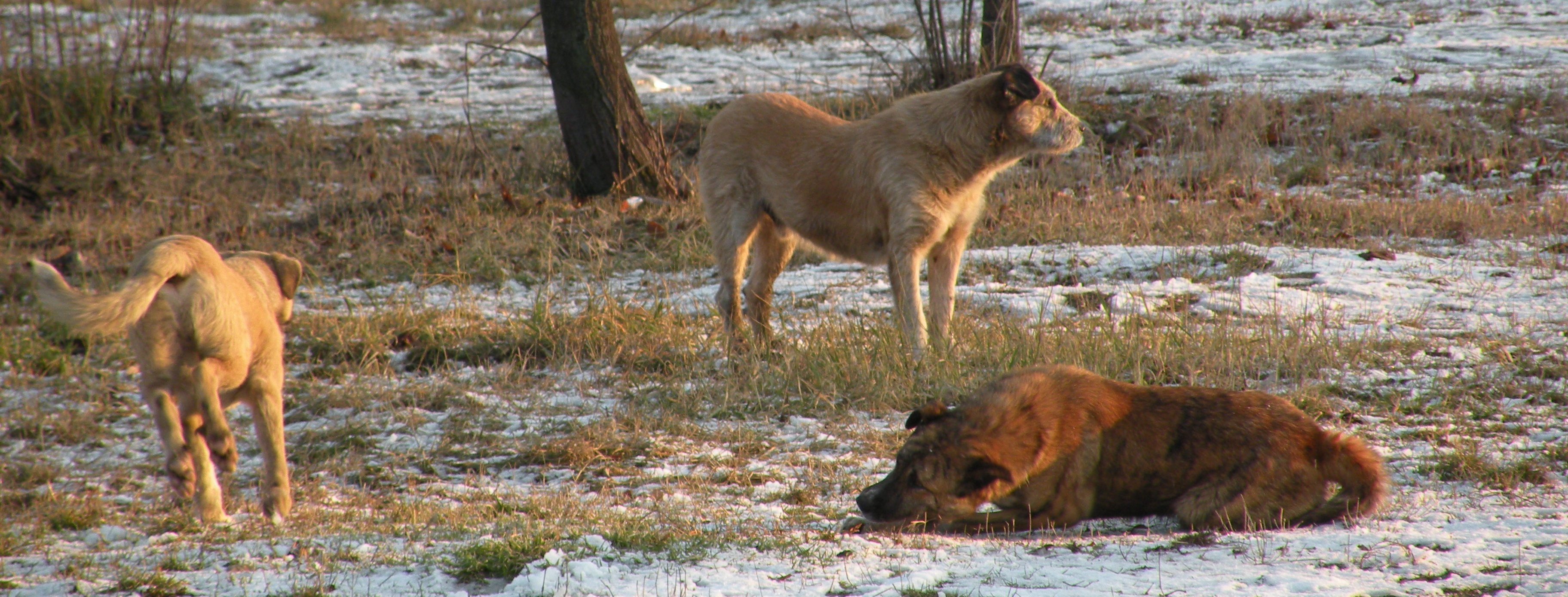 Feral dogs (Canis lupus familiaris) living in Bucharest, Romania.